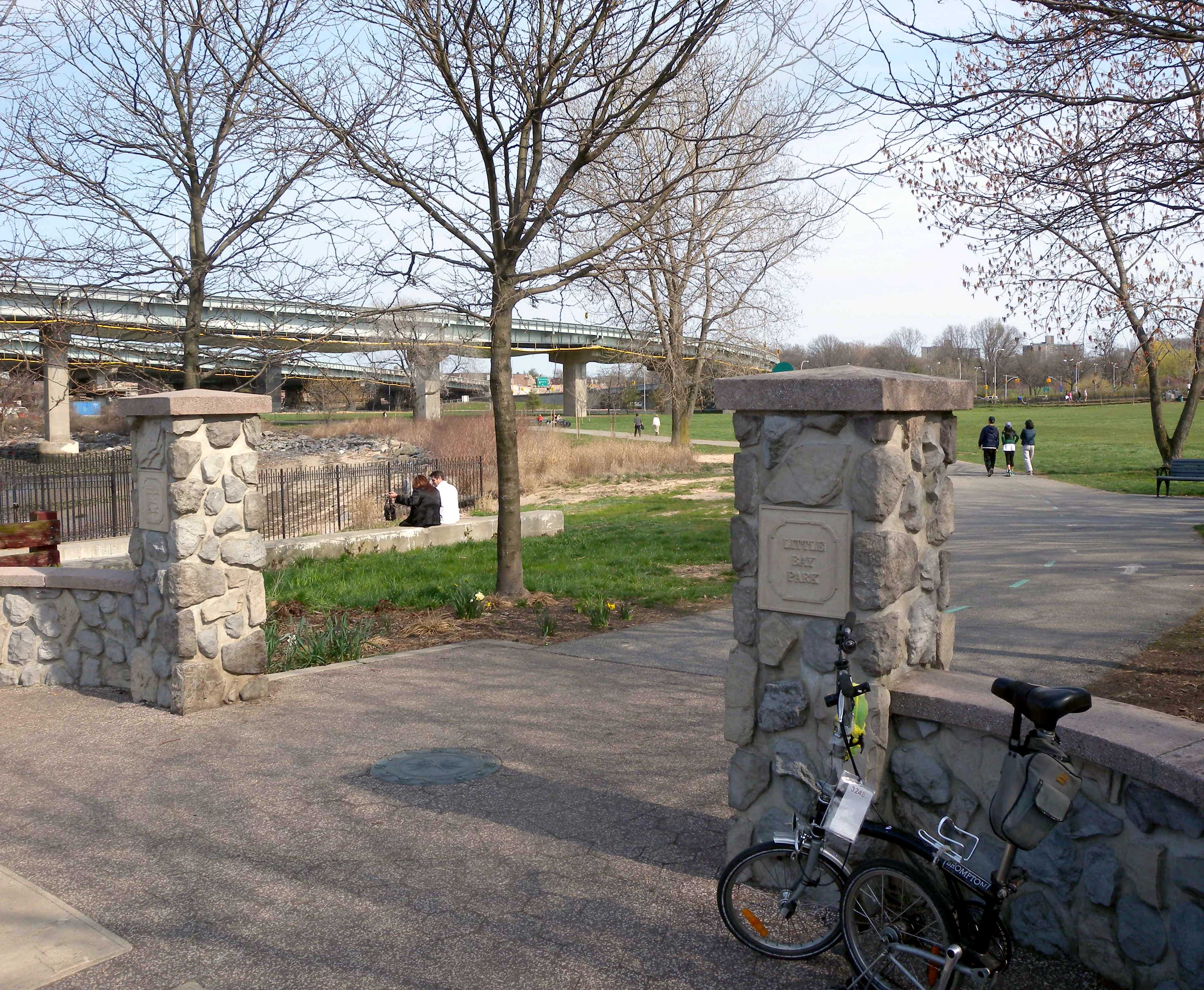 Looking east at western (Utopia Parkway) gate of Little Bay Park and of Brooklyn-Queens Greenway on a mostly cloudy afternoon.